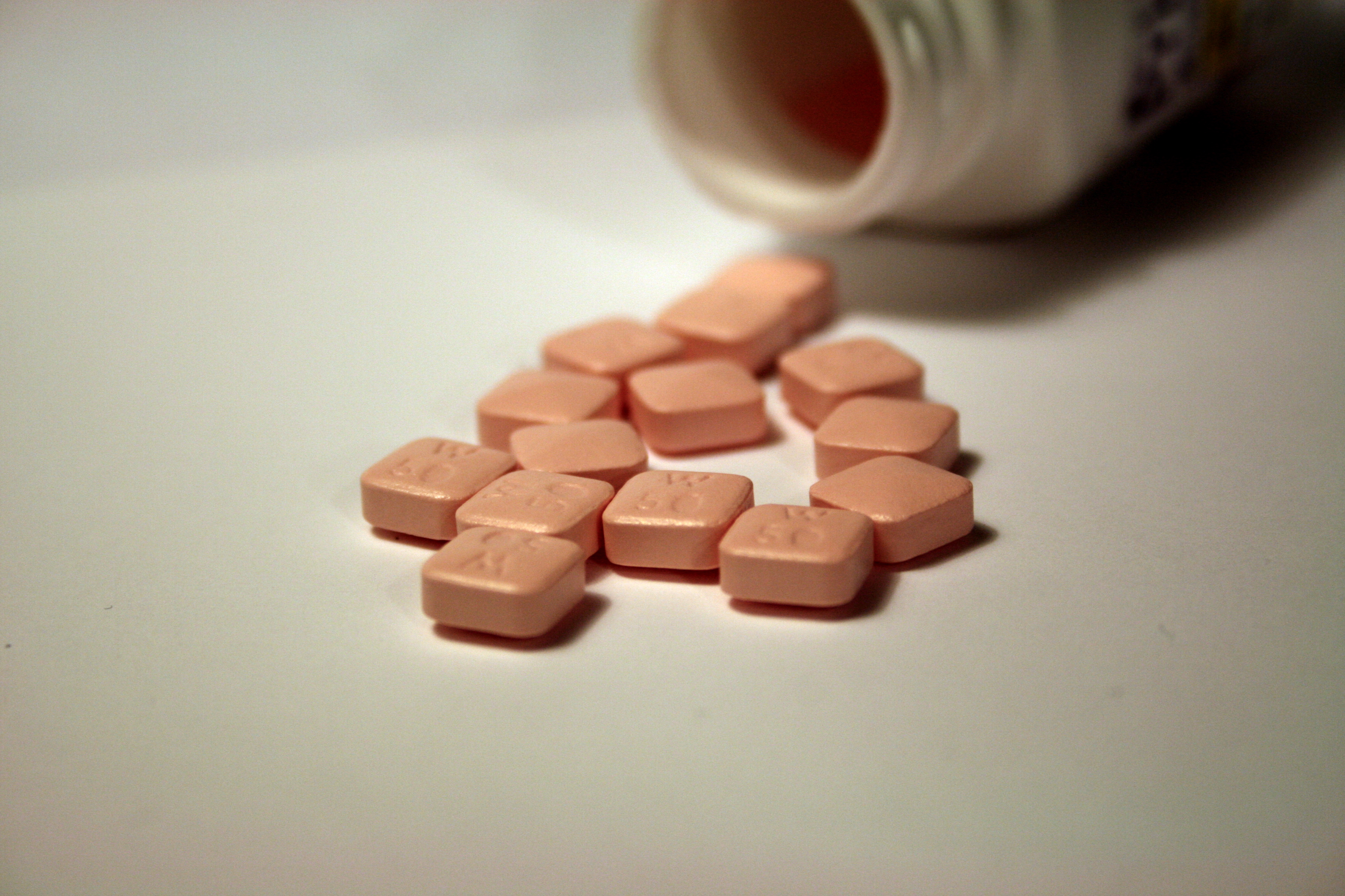 Desvenlafaxine succinate 50mg Tablets (Pristiq brand)